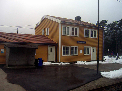 Nodeland, railway station, Sørlandsbanen, Norway.